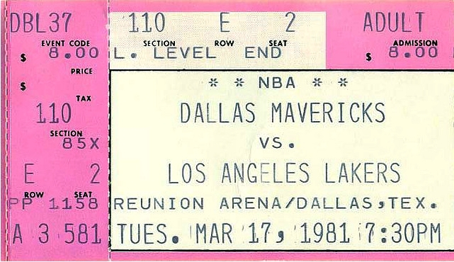 A ticket for a March 17, 1981 National Basketball Association game featuring the Los Angeles Lakers versus the Dallas Mavericks at Reunion Arena.